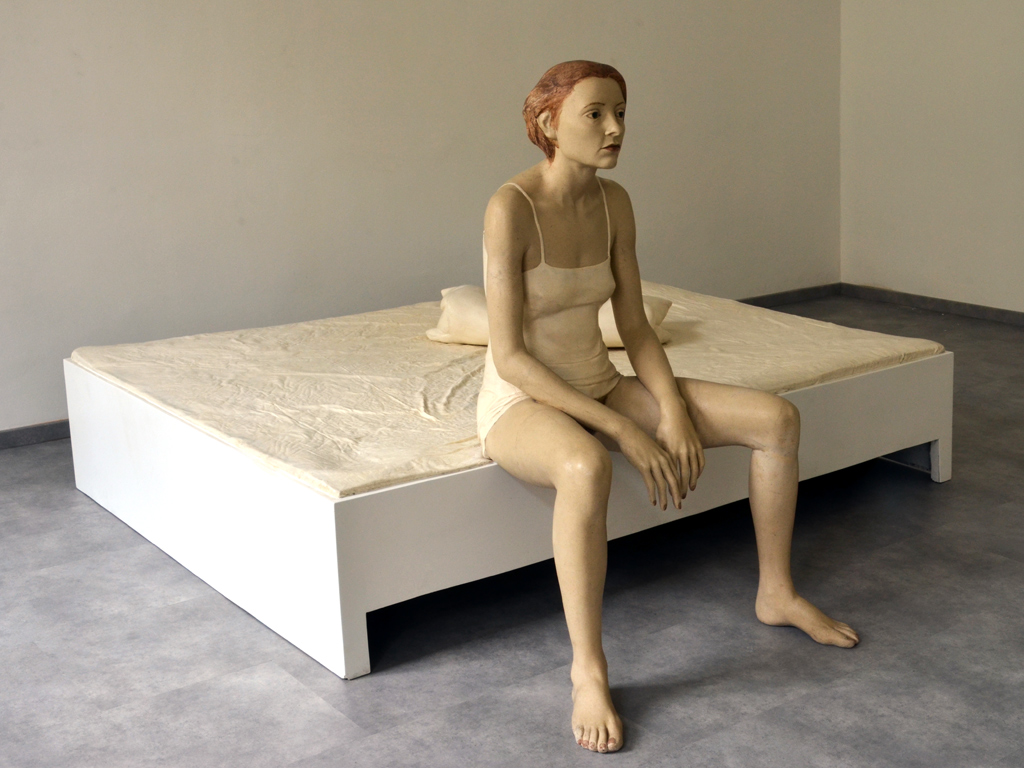 Ludmila Seefried-Matějková, On the edge, synthetic material, wood, polychromy, instalation (1976-77)